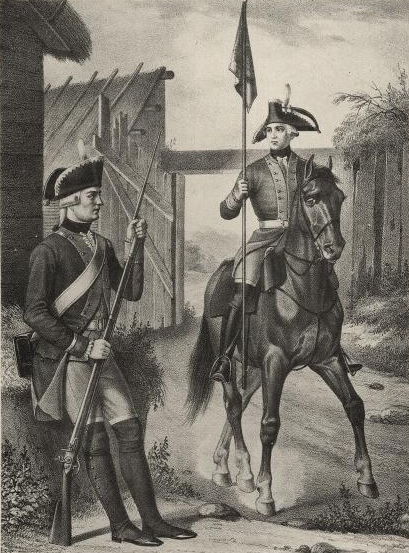 Corporal and mounted Furir of the der Musketeer platoons of the Inantri regiment, Russia 1763 to 1786.